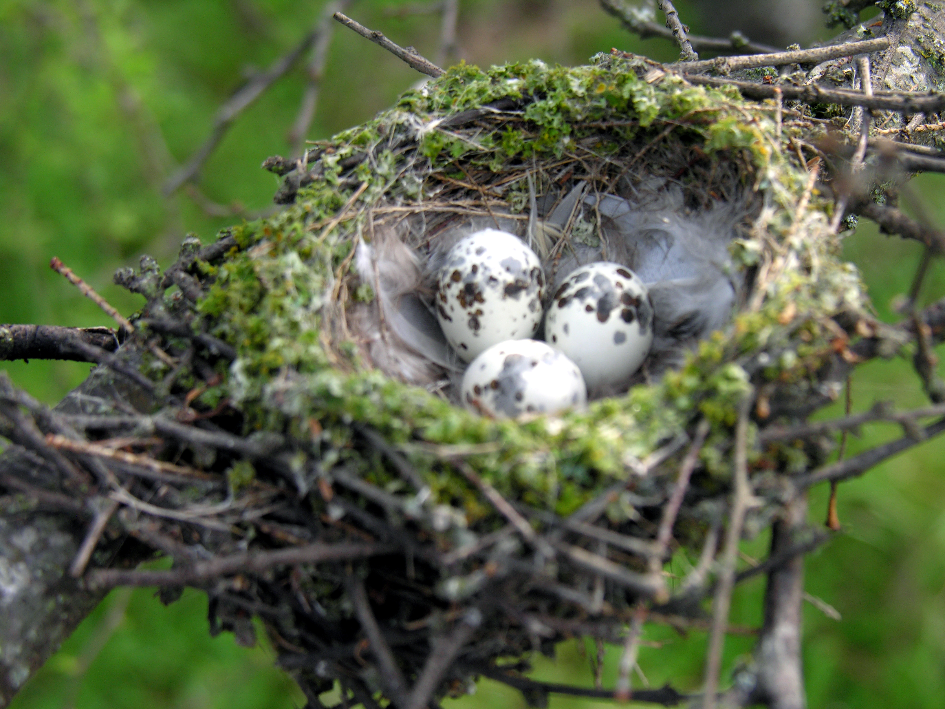 These 3 Vermillion Flycatcher eggs are probably a bit smaller than my thumbnail. Lake Amistad, Del Rio, Texas.